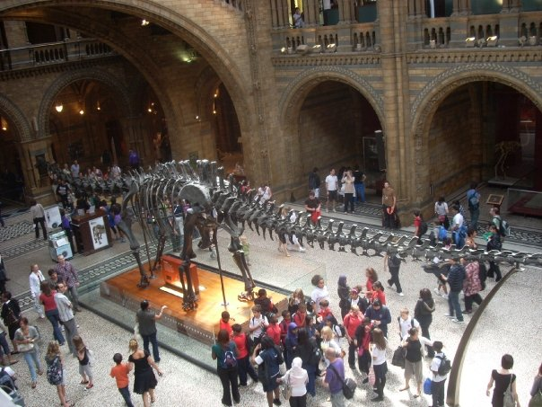 London Natural History Museum